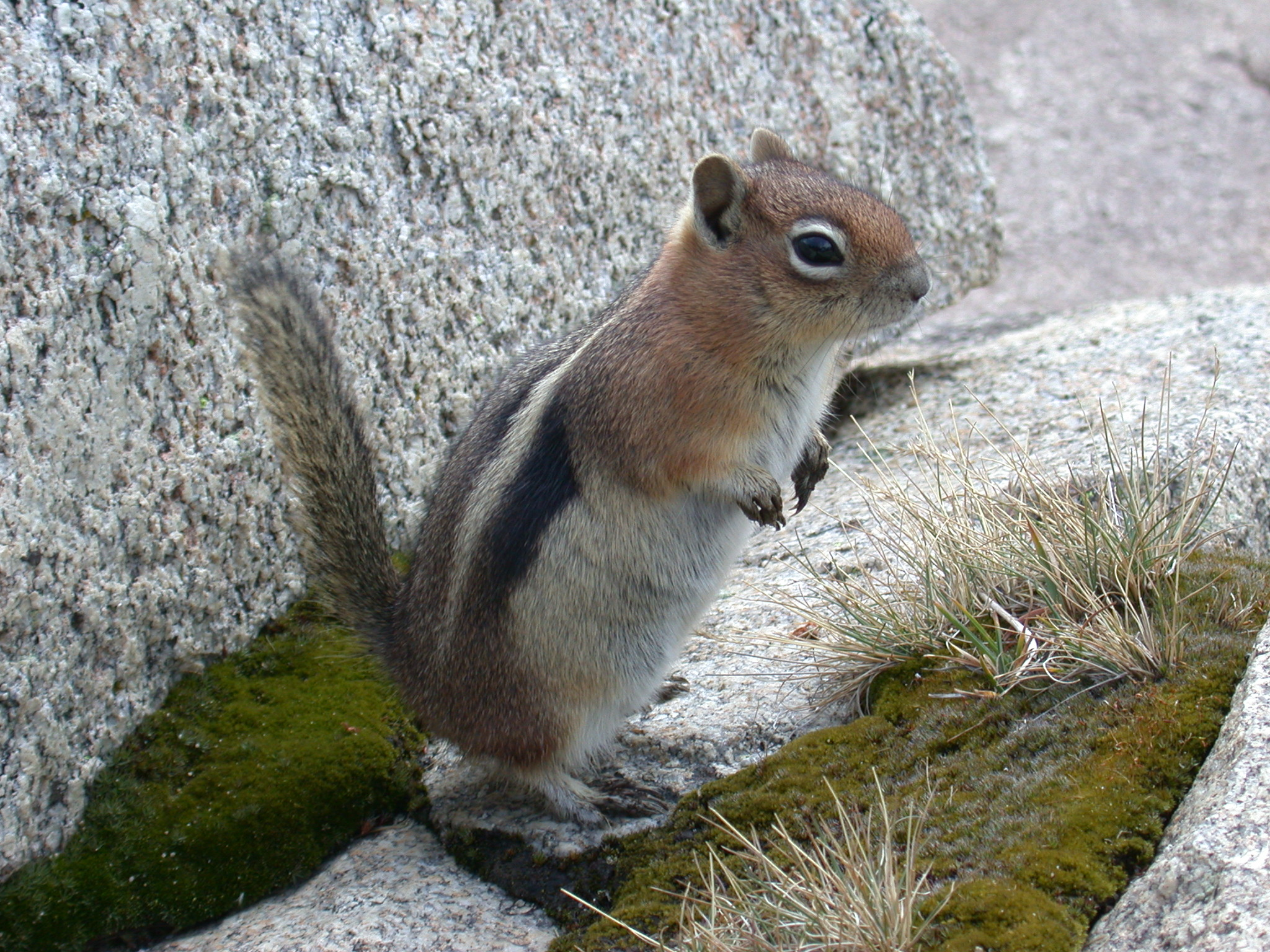 Golden-mantled Ground Squirrel (Spermophilus lateralis). Photo taken near Lake Isabelle in the Indian Peaks Wilderness Area, Colorado, USA